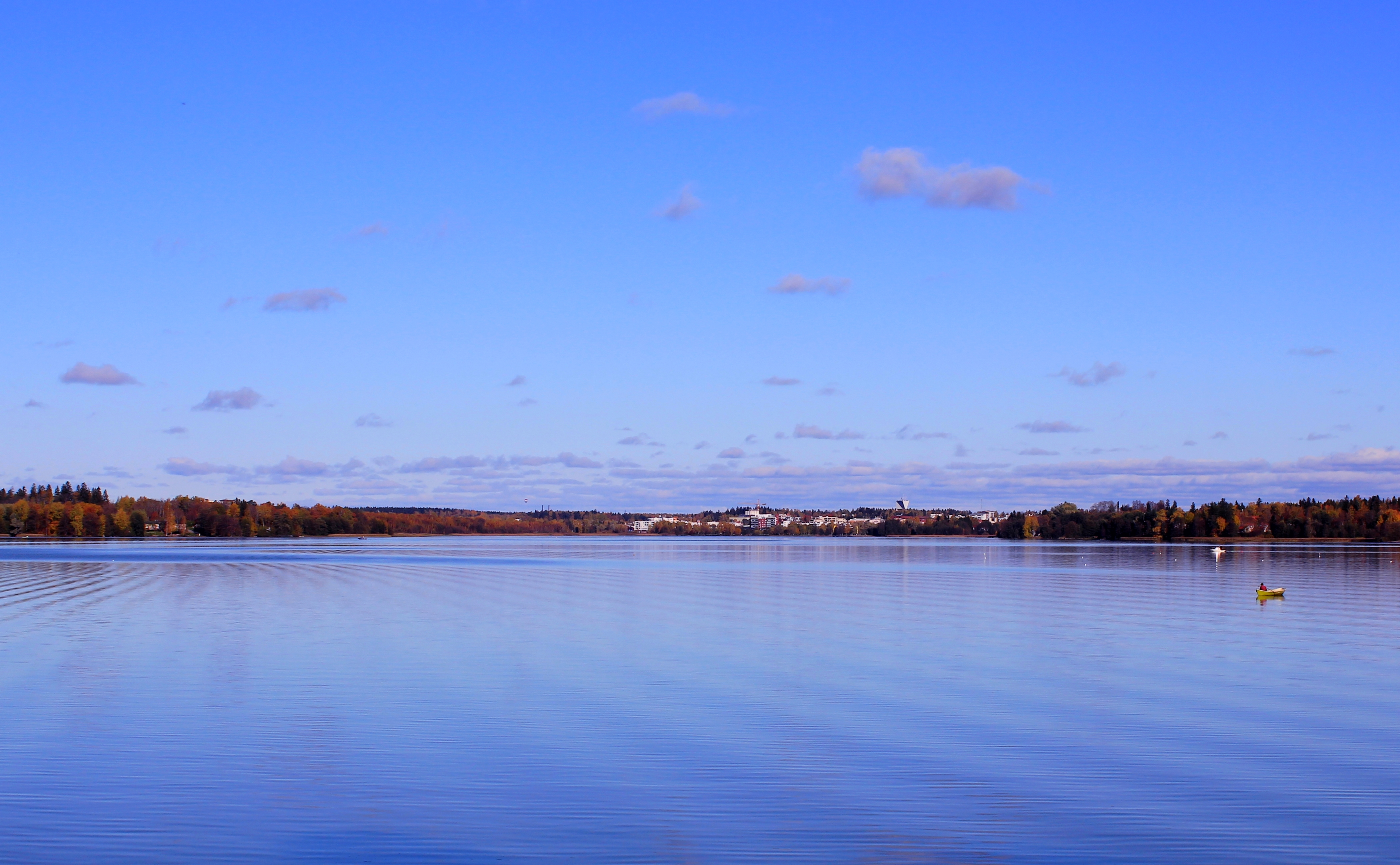 Lake Tuusulanjärvi in Uusimaa, Finland. The town of Järvenpää on the background.